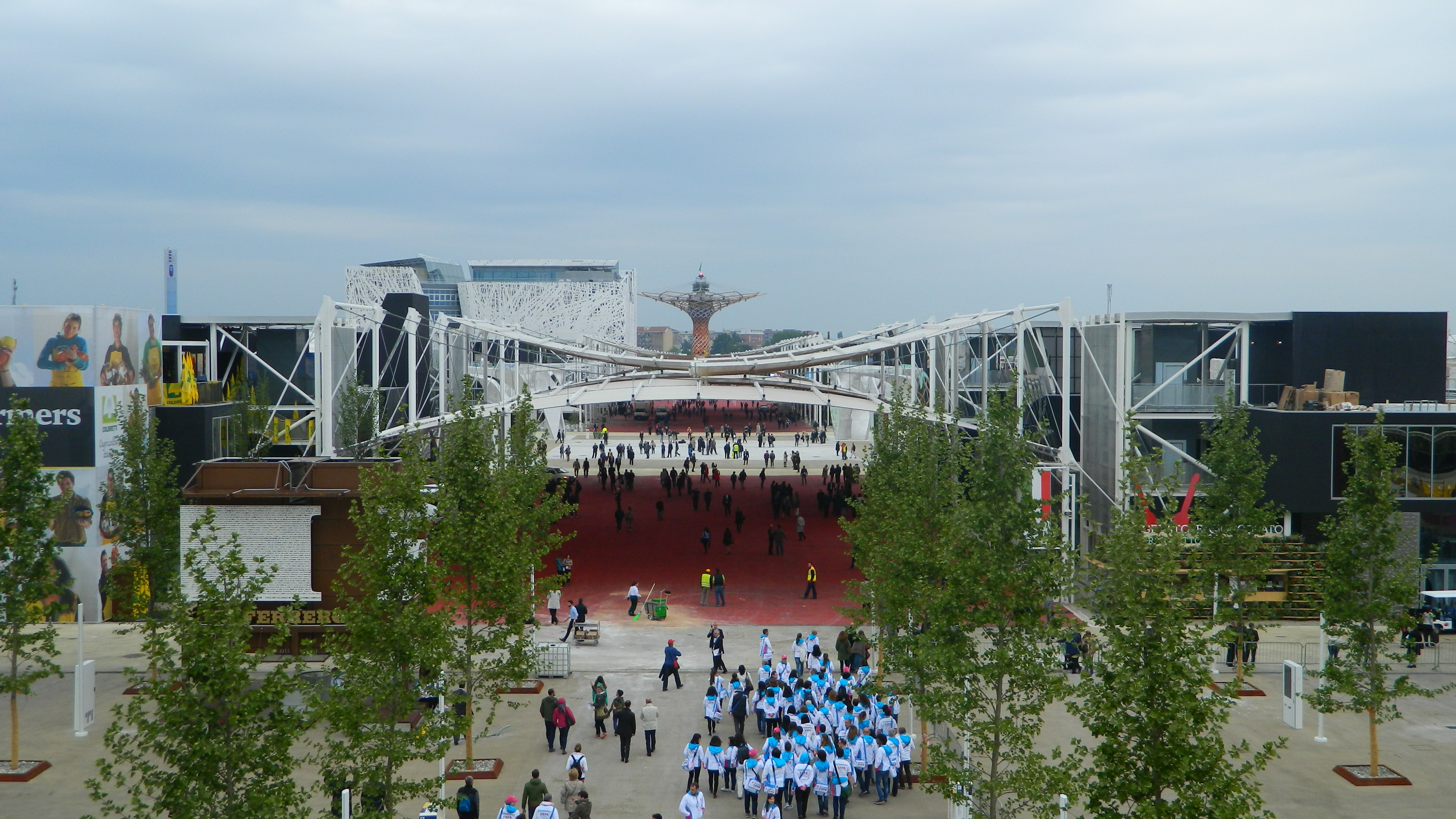 The Cardus of Expo 2015 Milano, as seen from Merlata-Expo boardwalk. On the background Palazzo Italia (the italian pavilion) and the Tree of Life.